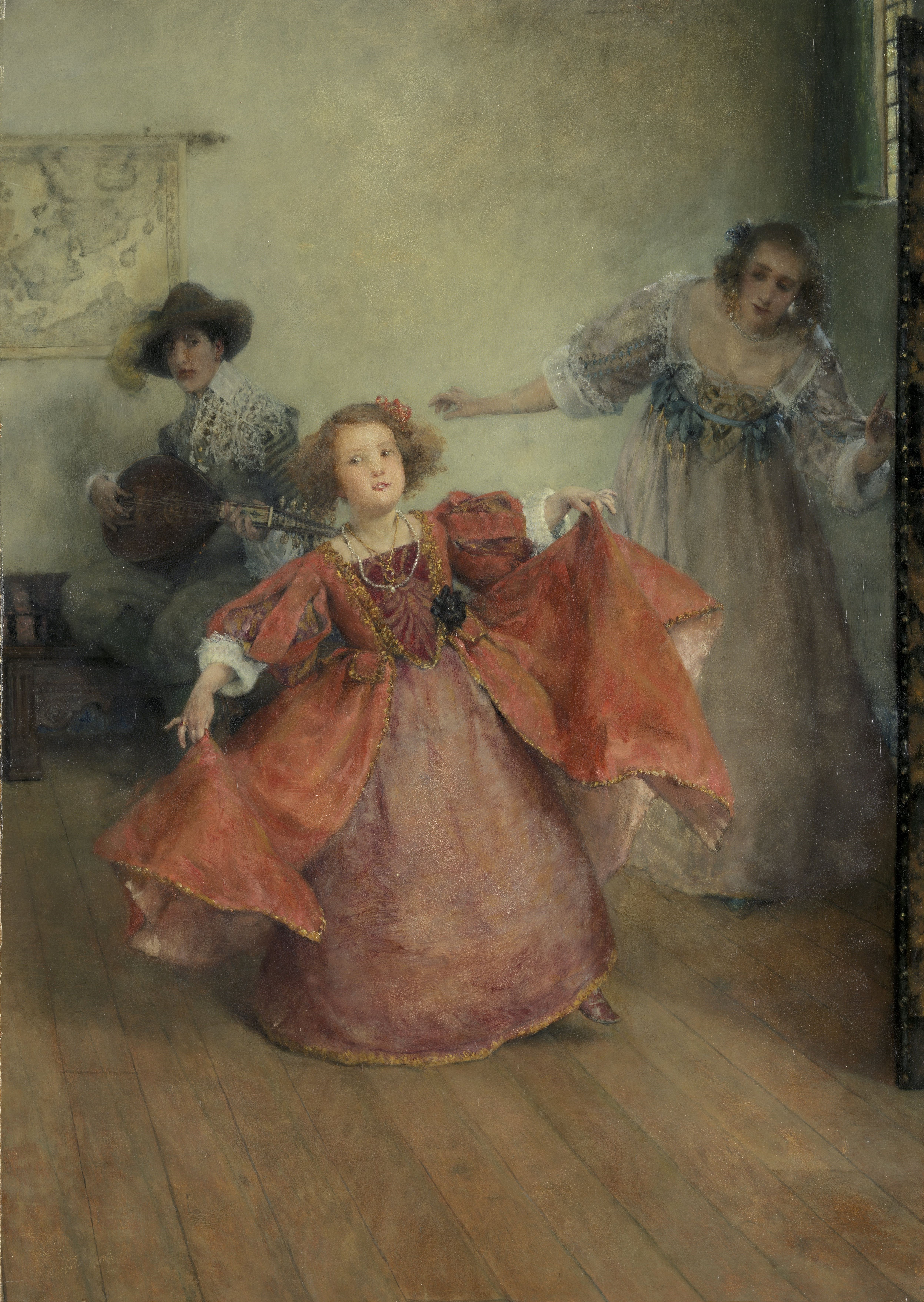 Interior with a dancing girl. To the right mother looks on. To the left a man is playing the lute.